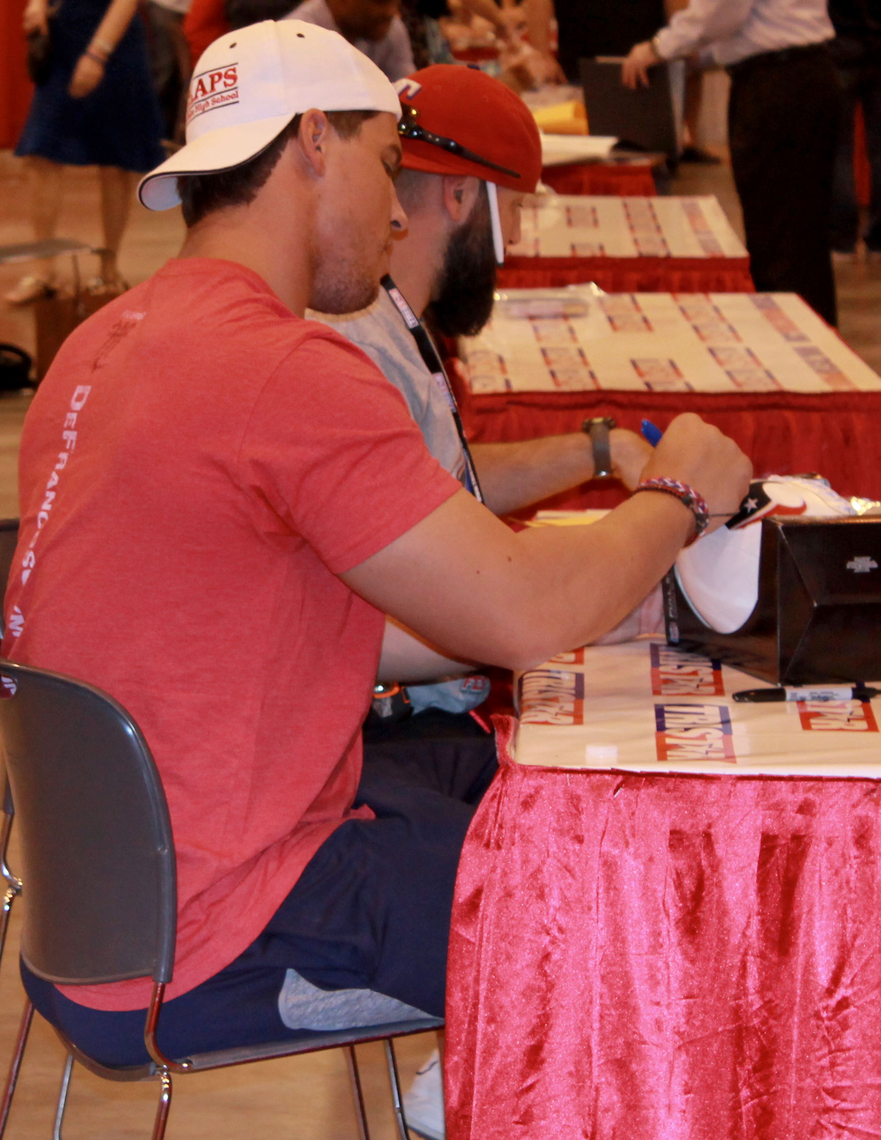 National Football League player Brian Cushing signs autographs at a Houston sports collectors show in June 2014.